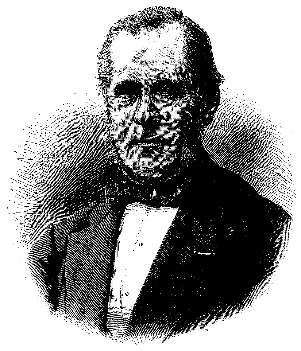 Danish chemist Hans Peter Jørgen Julius Thomsen (1826–1909), engraving by Hans Peter Hansen (1829–1899)